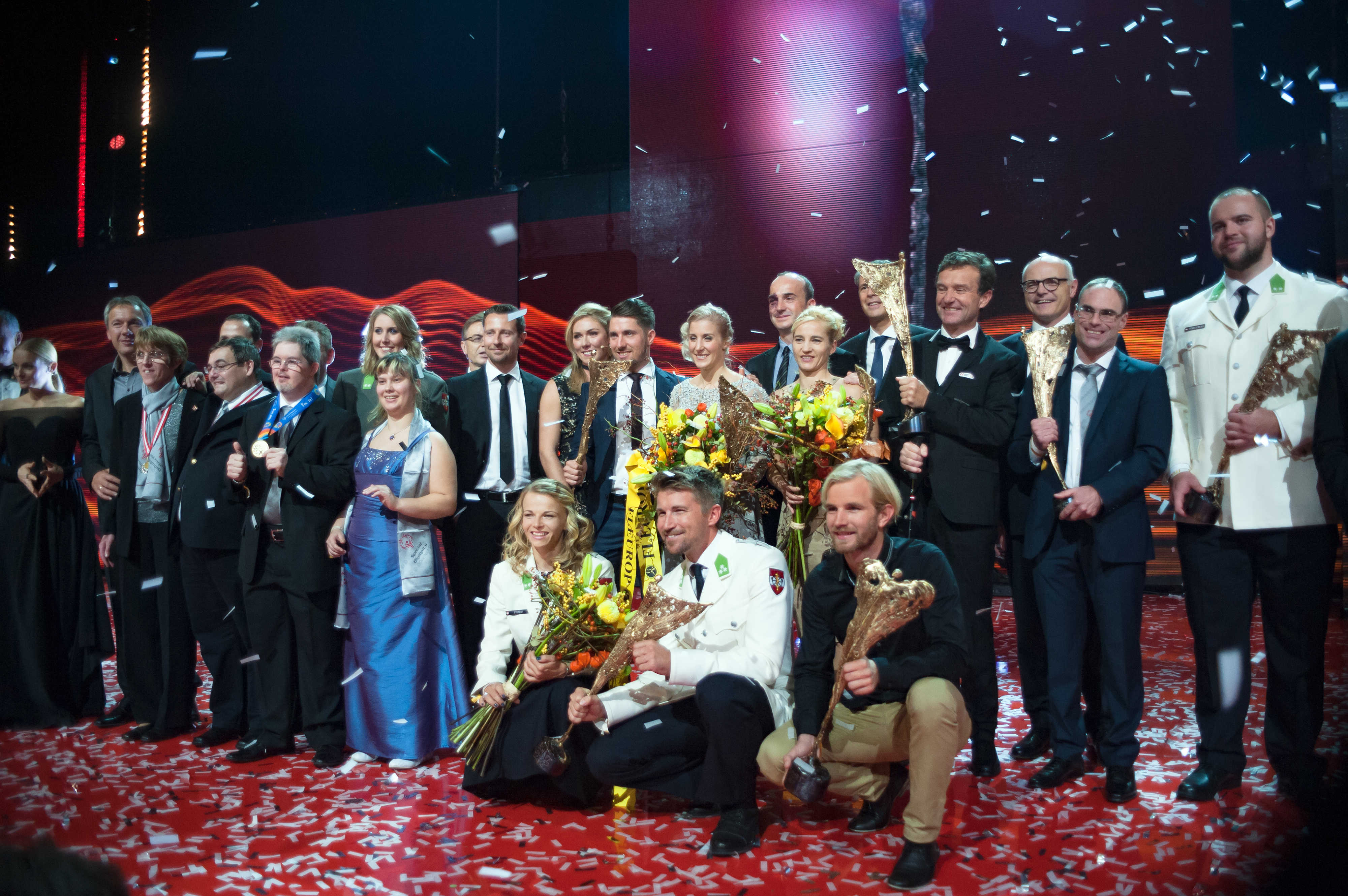 The Austrian Sportspersonalities of the Year 2016 (Austria Center Vienna).